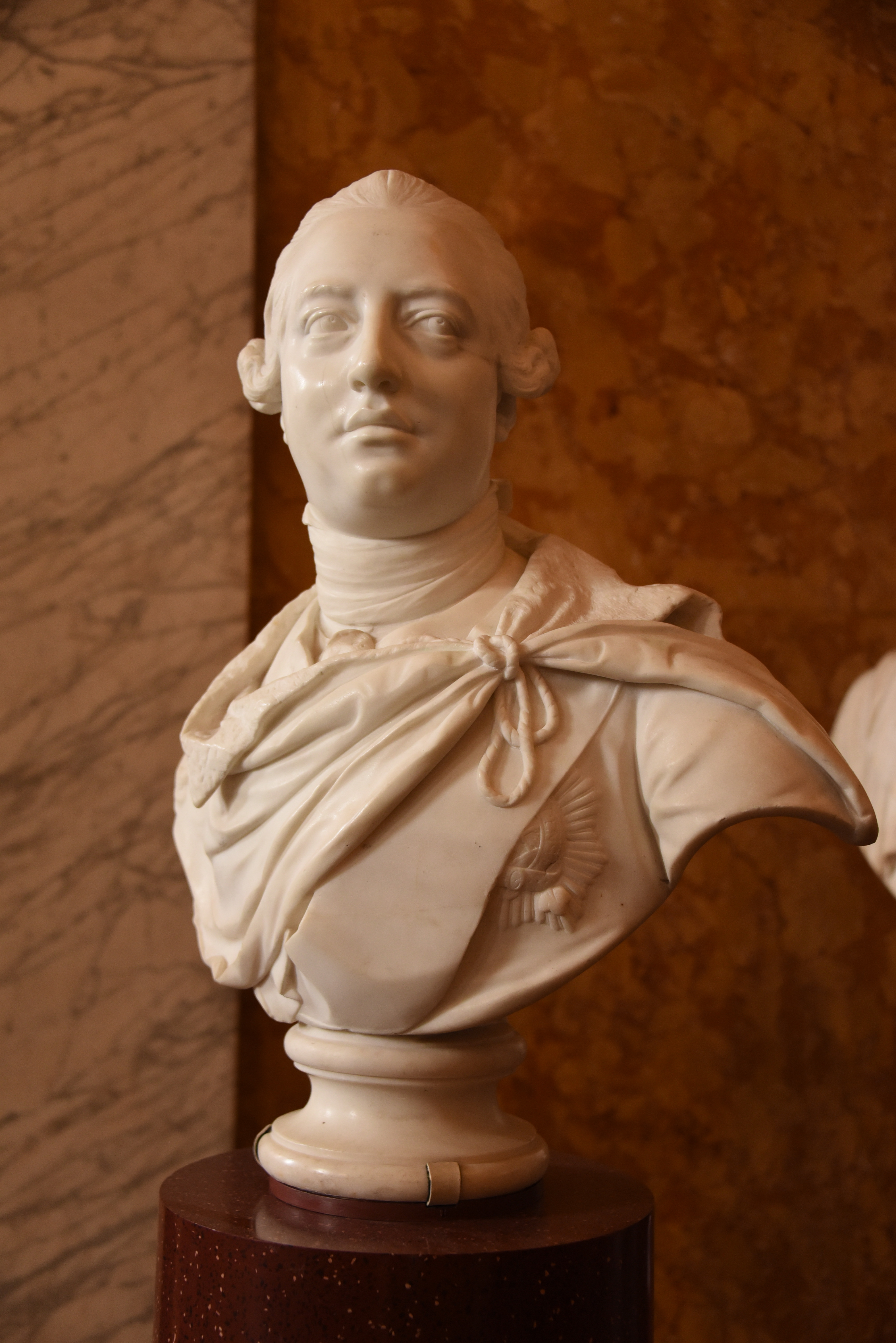 King George III of the United Kingdom, by John van Nost the Younger, 1767 CE. It is housed in the British Museum, London; lent by the Victoria and Albert Museum, London.